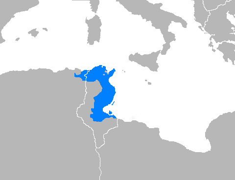 Tunisian arab.